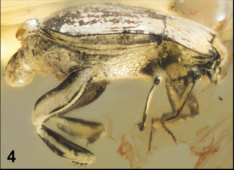 Amplectister tenax holotype. 4 Lateral view